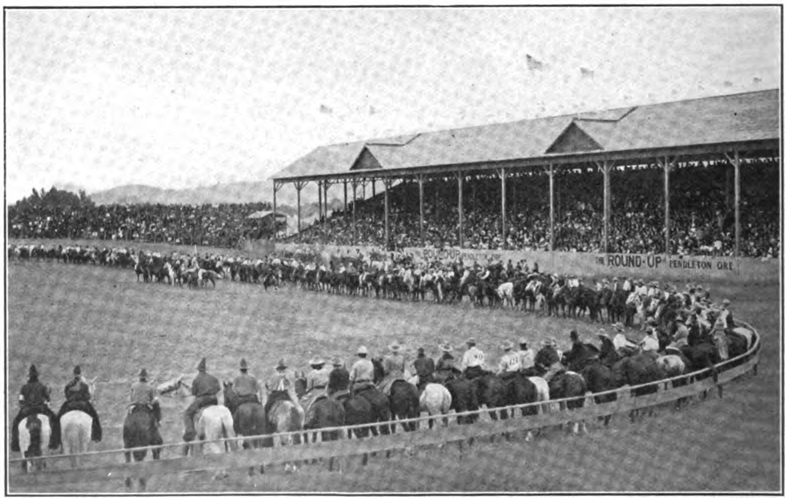 From Sunset magazine article